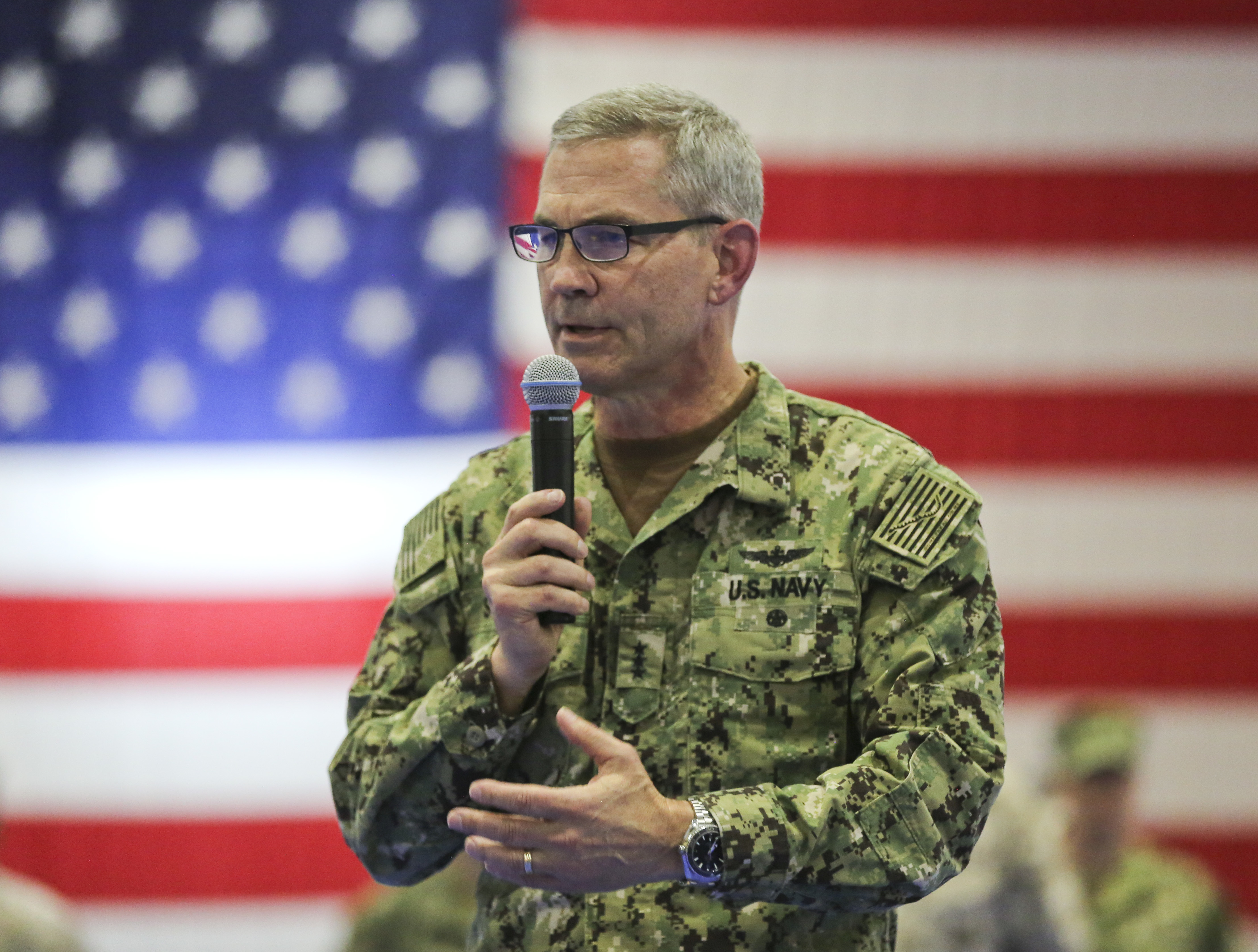 180703-M-AR450-1119 NAVAL SUPPORT ACTIVITY BAHRAIN (July 3, 2018) U.S. Navy Vice Adm. Scott A. Stearney, commander of U.S. Naval Forces Central Command/U.S. 5th Fleet/Combined Maritime Forces, delivers remarks during the Naval Amphibious Force, Task Force 51/5th Marine Expeditionary Brigade (TF 51/5) change of command ceremony. Brig. Gen. Matthew G. Trollinger relieved Brig. Gen. Francis L. Donovan, who served as the commanding general of TF 51/5 since July 2016. (U.S. Marine Corps photo by Sgt. Wesley Timm/Released)